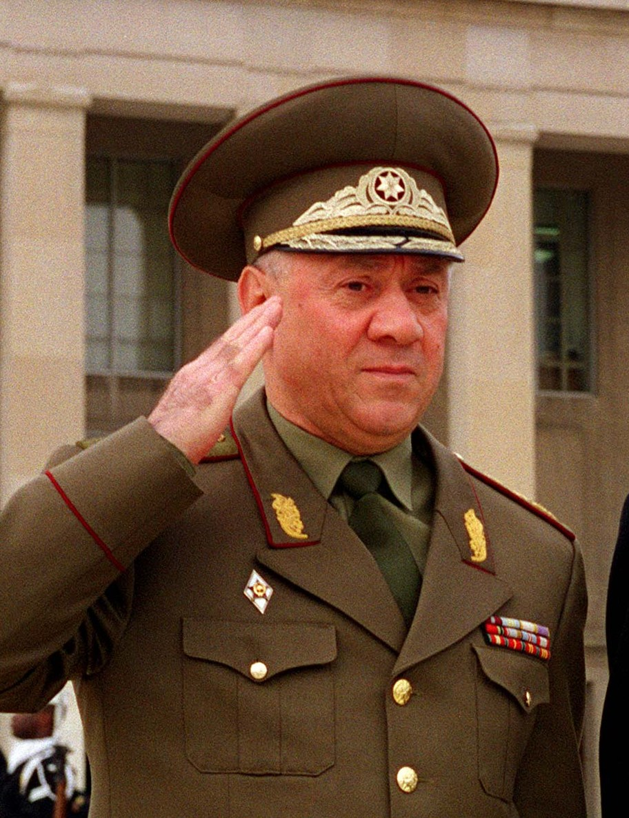 Secretary of Defense William S. Cohen (right) escorts Minister of Defense Gen. Lt. Vardiko Nadibaidze (left), of the Republic of Georgia, to an armed forces full honors arrival ceremony welcoming Nadibaidze to the Pentagon on March 24, 1998. DoD photo by Helene C. Stikkel.